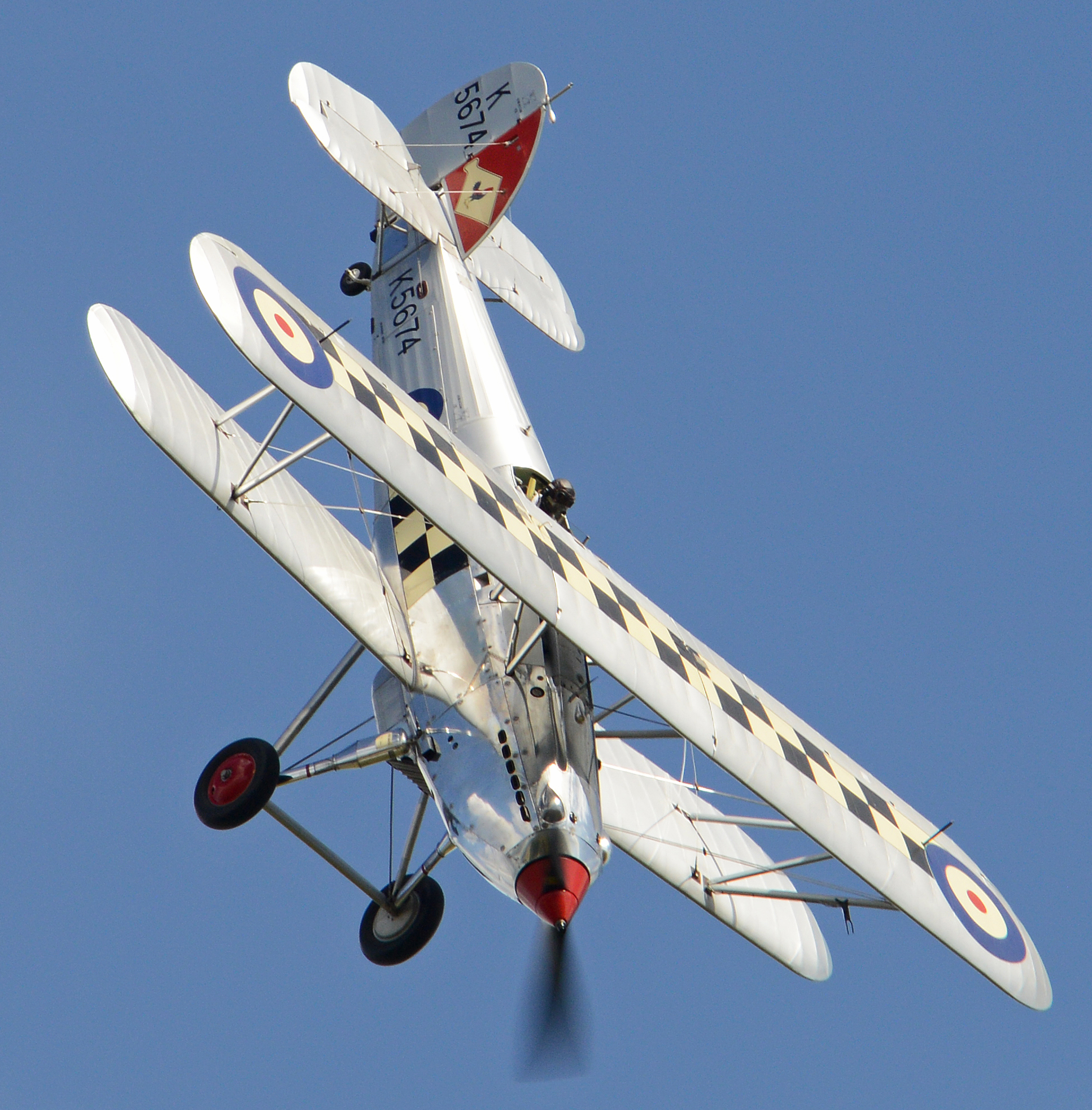 c/n 41H/67550. Built 1935. She wears genuine 43sqn markings and is operated by HAC (Historic Aircraft Collection Ltd). She is seen coming out of a loop during a spritely display at the 2016 Flying Legends airshow, Duxford, Cambridgshire, UK. 10-7-2016